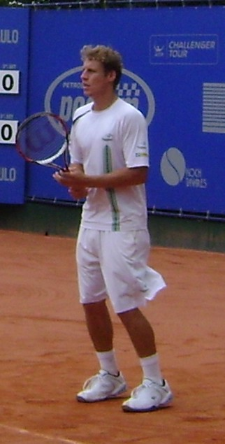 Ricardo Hocevar, tennis player from Brazil, at São Paulo Challenger